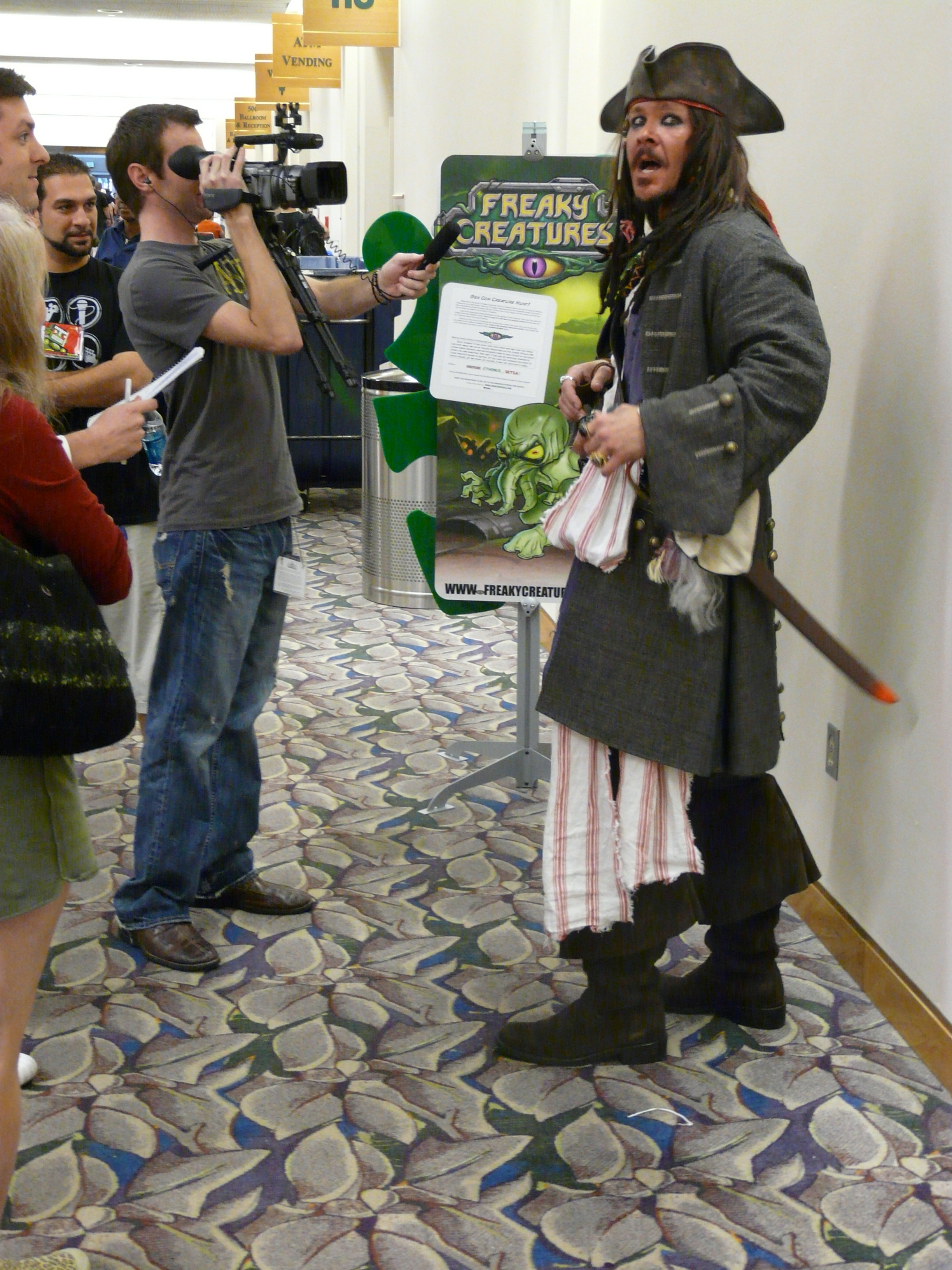 Picture of Gen Con Indy 2008 in Indianapolis, Indiana, USA.